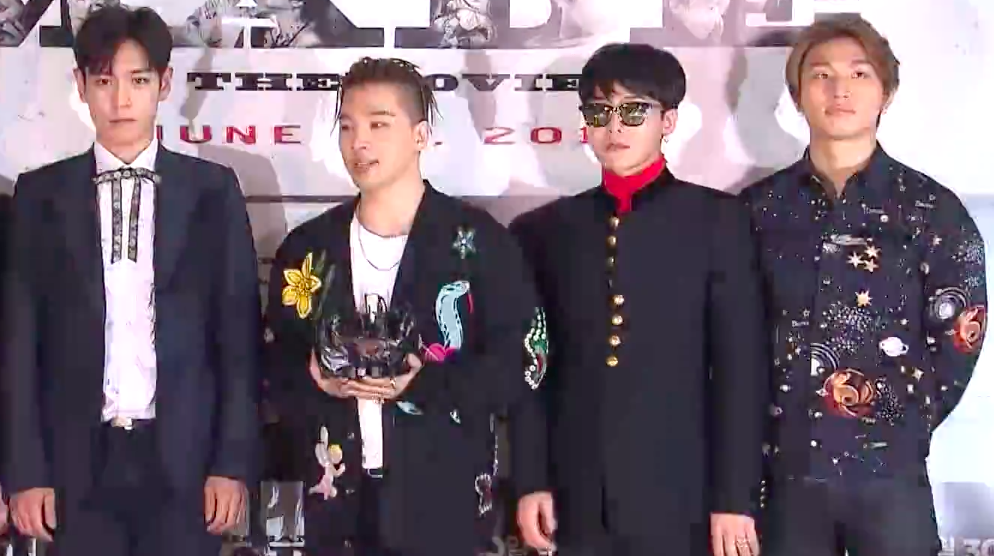 Big Bang 2016 'MADE' Press Conference.